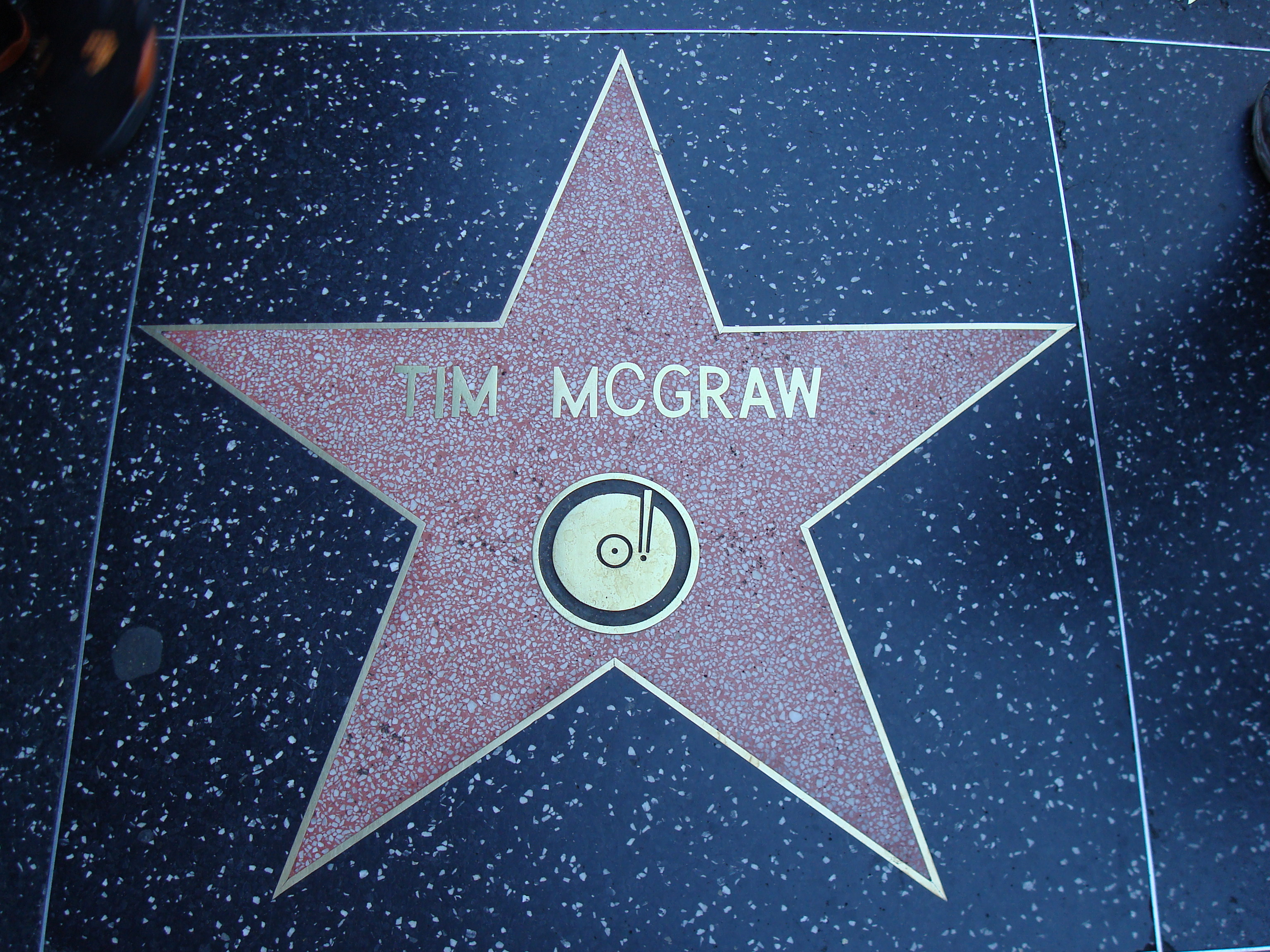 Tim McGraw's star on the Hollywood Walk of Fame in Hollywood, Los Angeles, California.